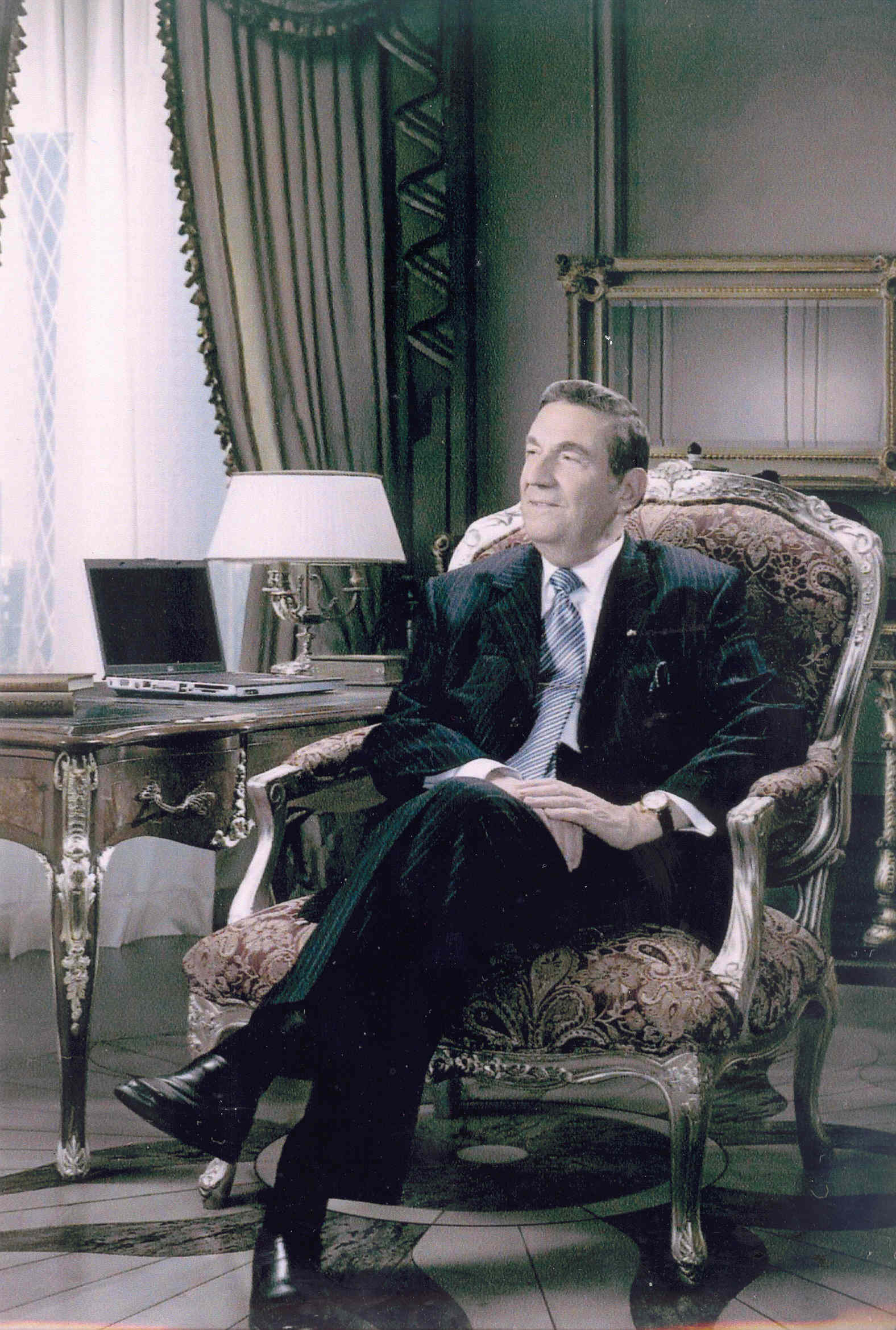 Nabil Kuzbari is an Austrian-Syrian businessman who is the President and CEO of The VIMPEX group of companies, a regional market leader in the paper industry based in the Middle East.